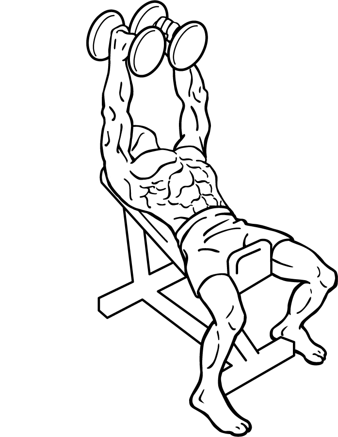 an exercise of chest